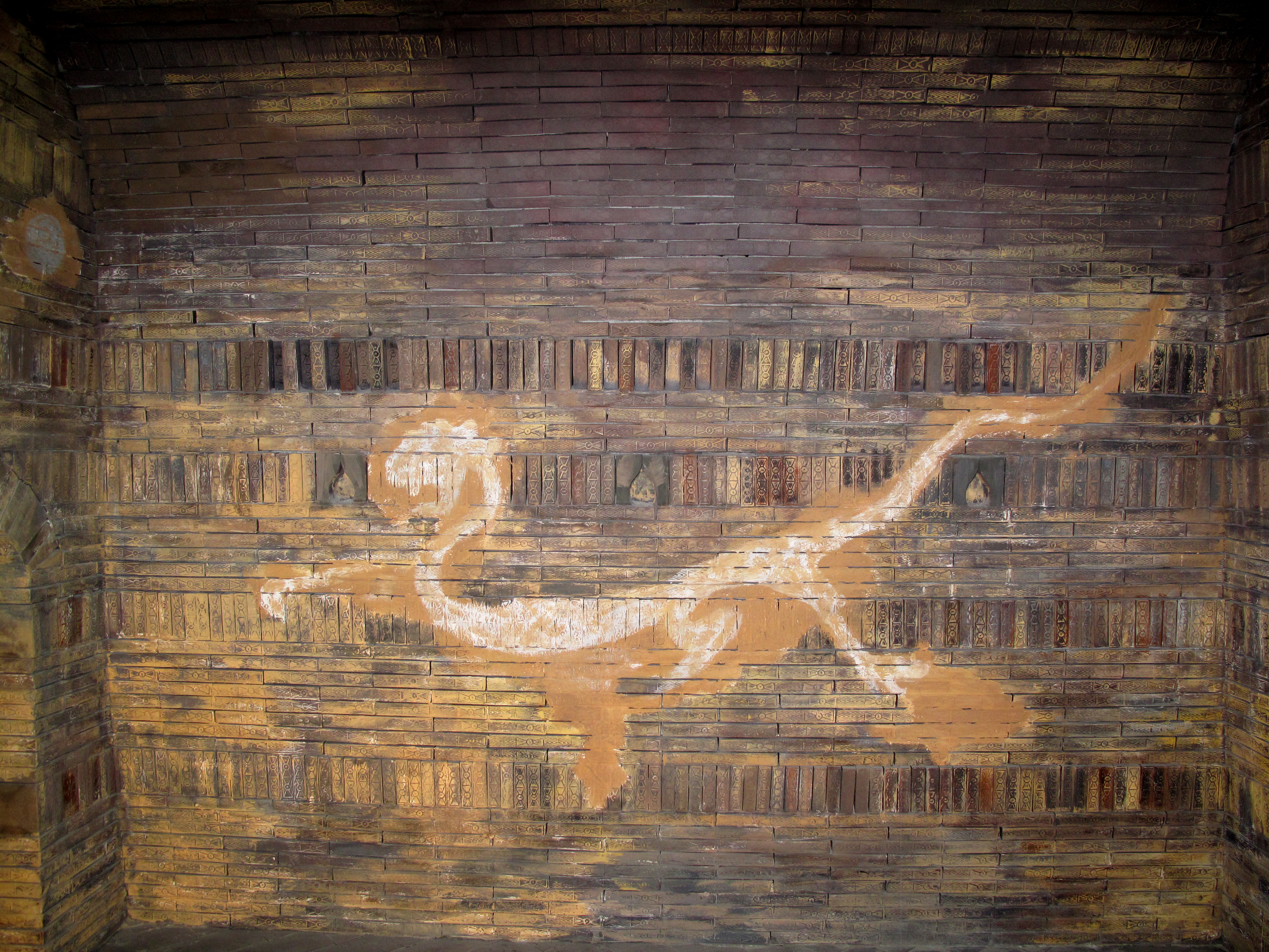 This is a replica in the site museum of the white tiger from the west wall of songsanri tomb #6.